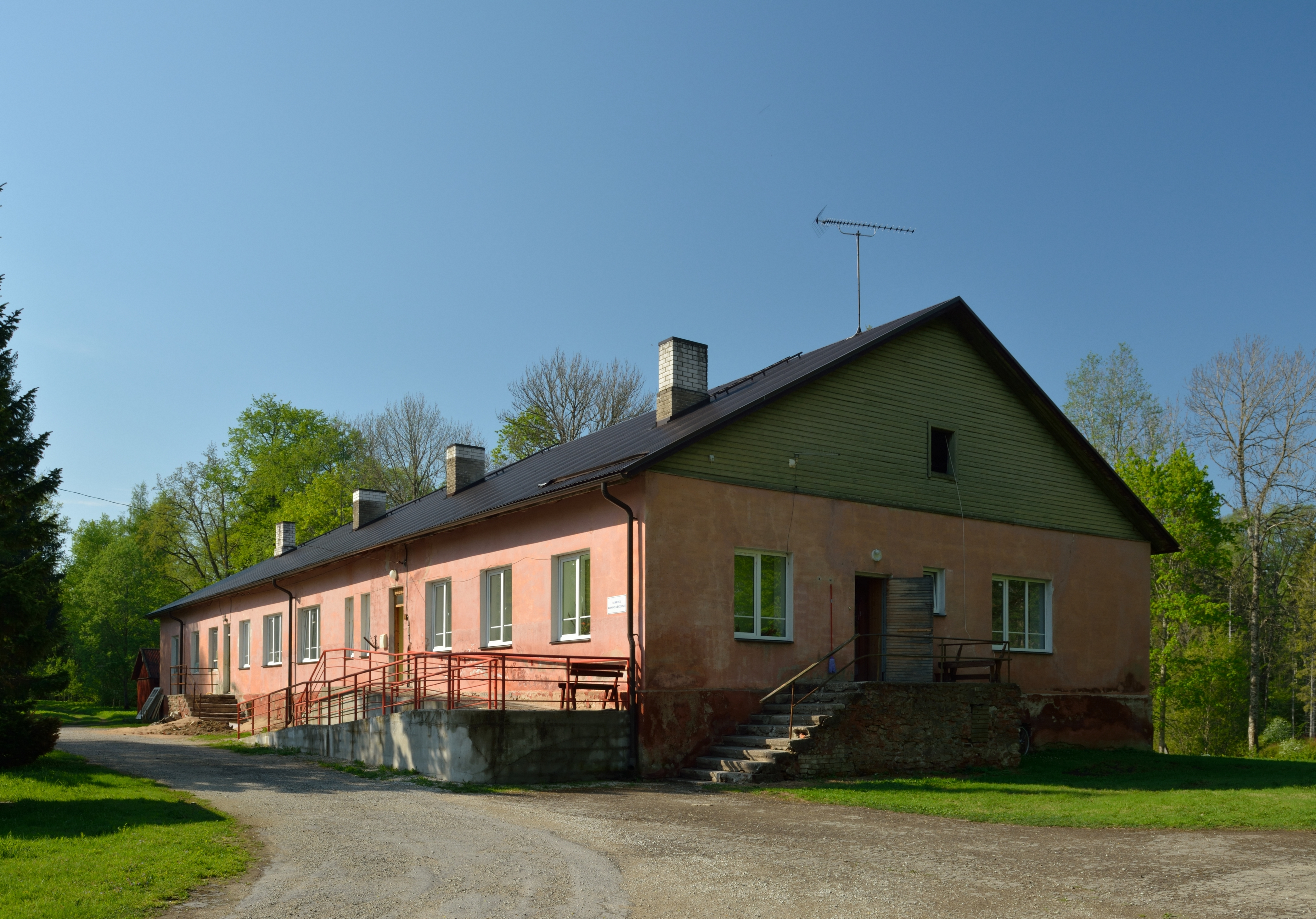 Rebuilt Tammiku manor main building